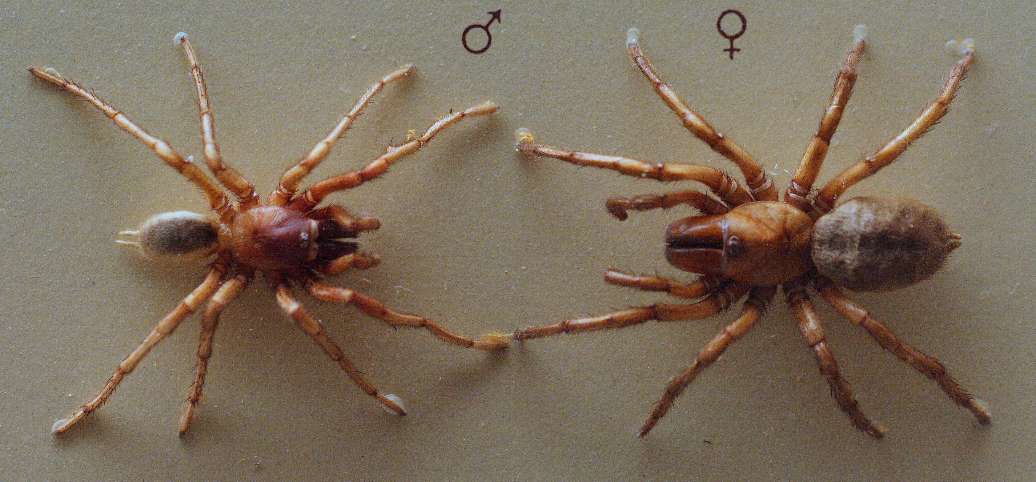 Specimen in the Australian Museum spider display.